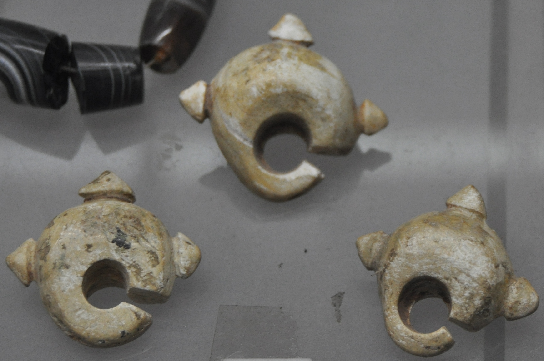 Three node pendant (Jade), Artefacts of Phu Hoa site(Dong Nai province), Collections of the Museum of Vietnamese History Circa 3,000 years ago